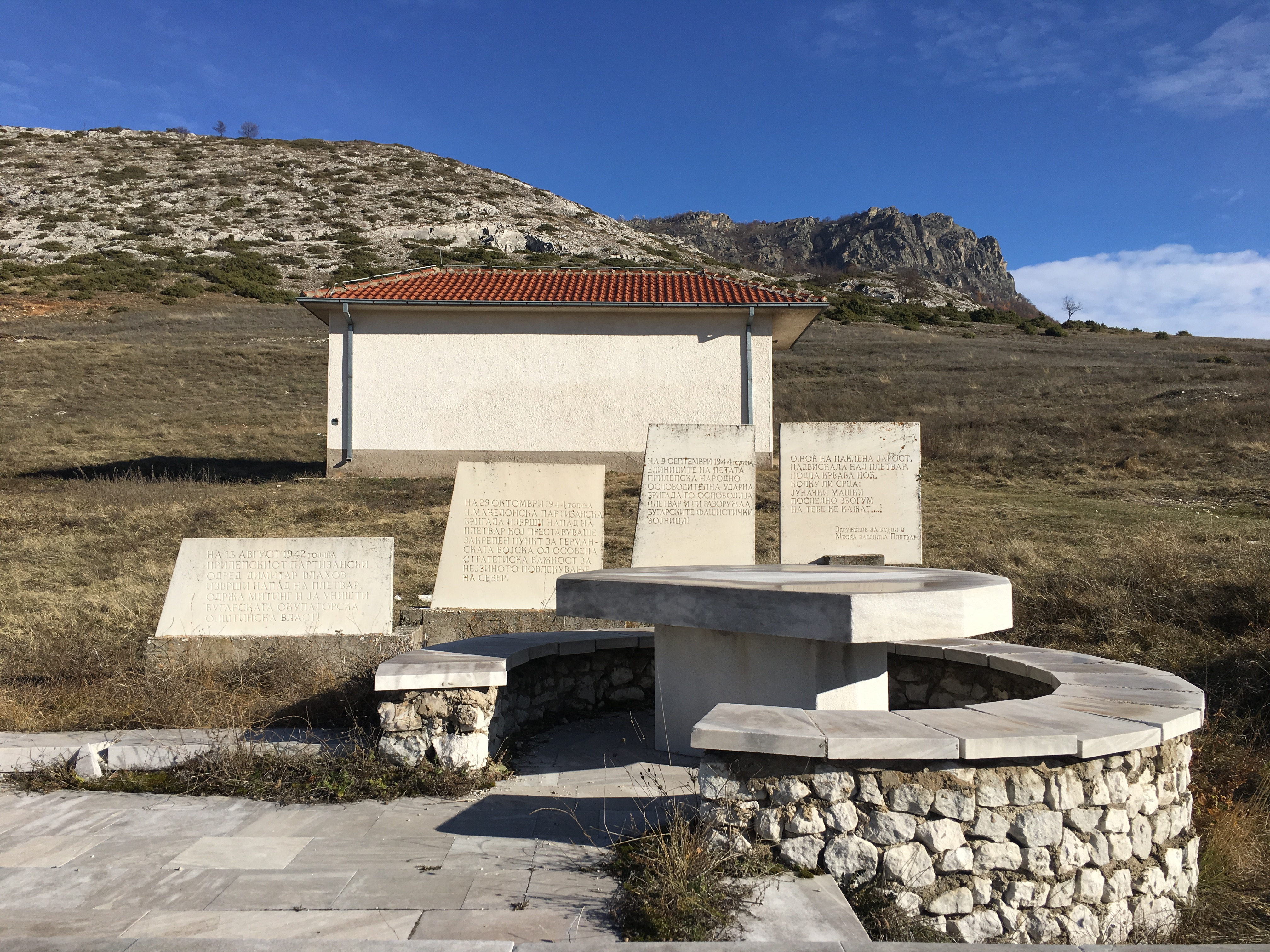 World War II monument in the village of Pletvar